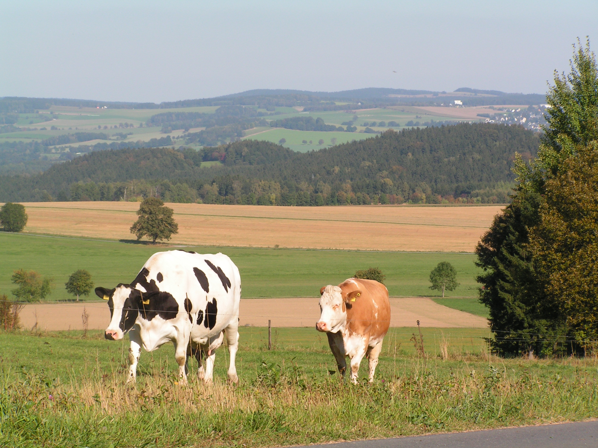 Heidelbachtal at village Drebach, Saxony.